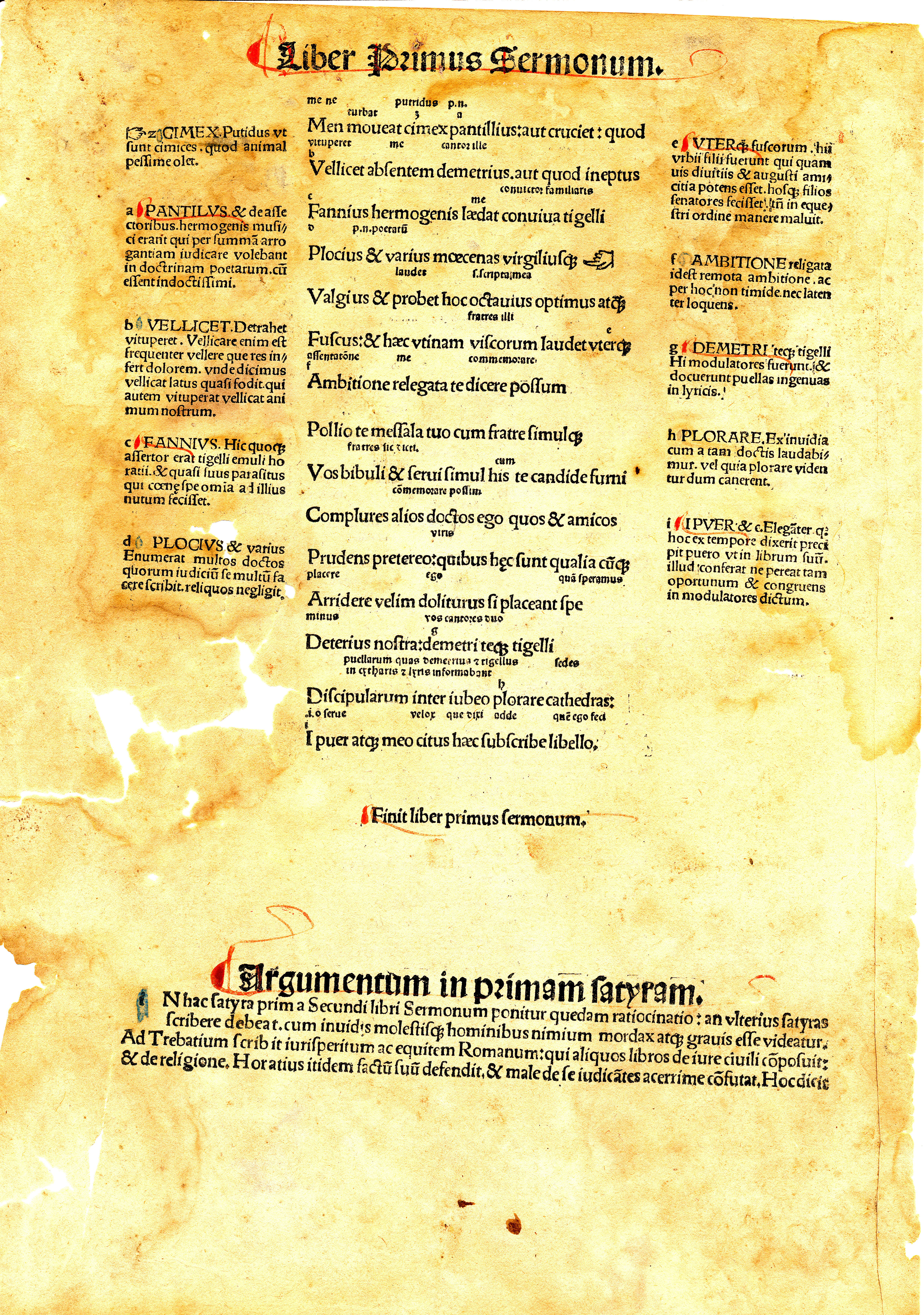 Horace's Opera (1498) verso; - From 1498 illustrated edition of Horace's Opera printed by Johannes Grüninger in Strasbourg.